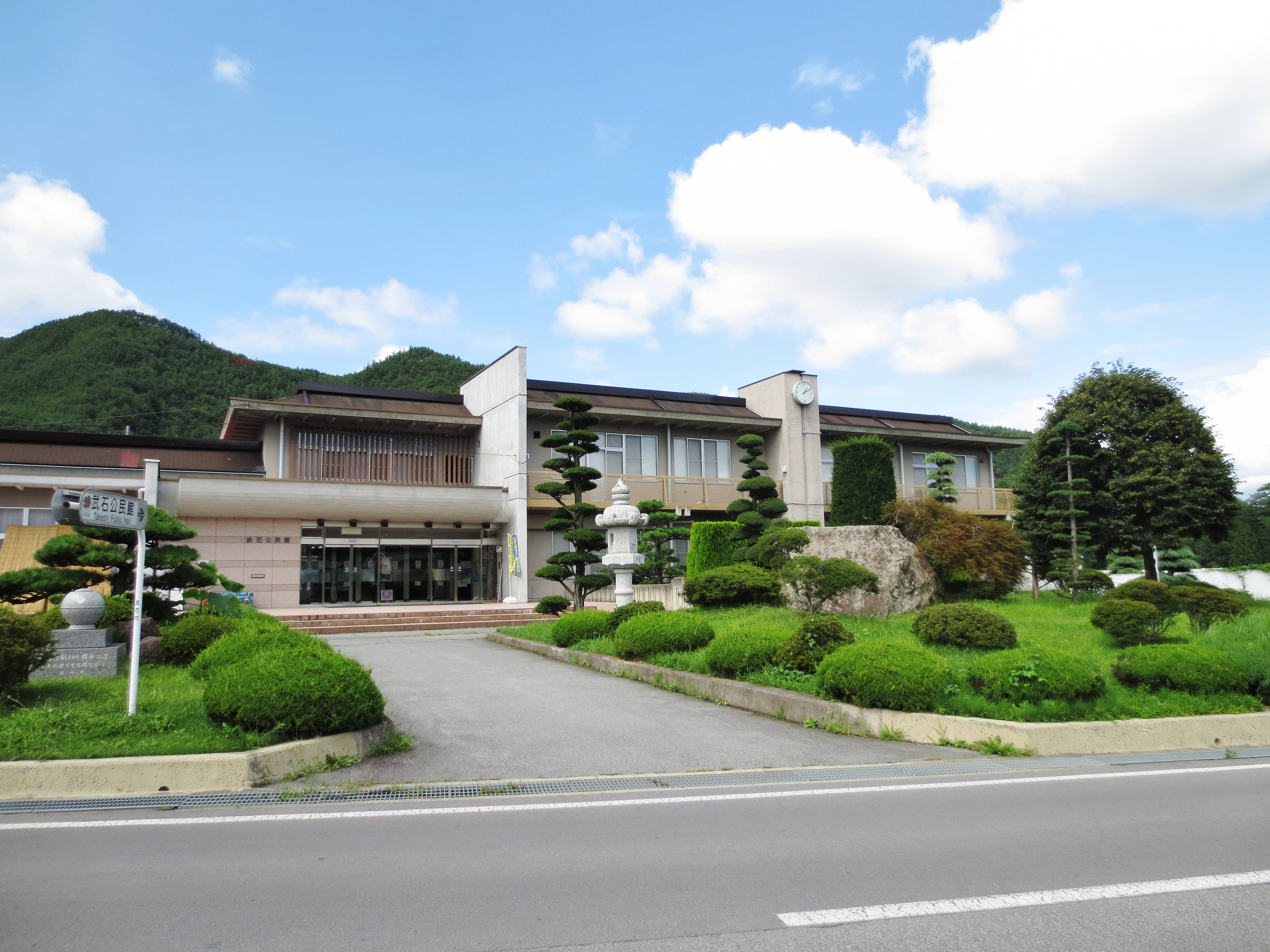 Takeshi Public Hall.